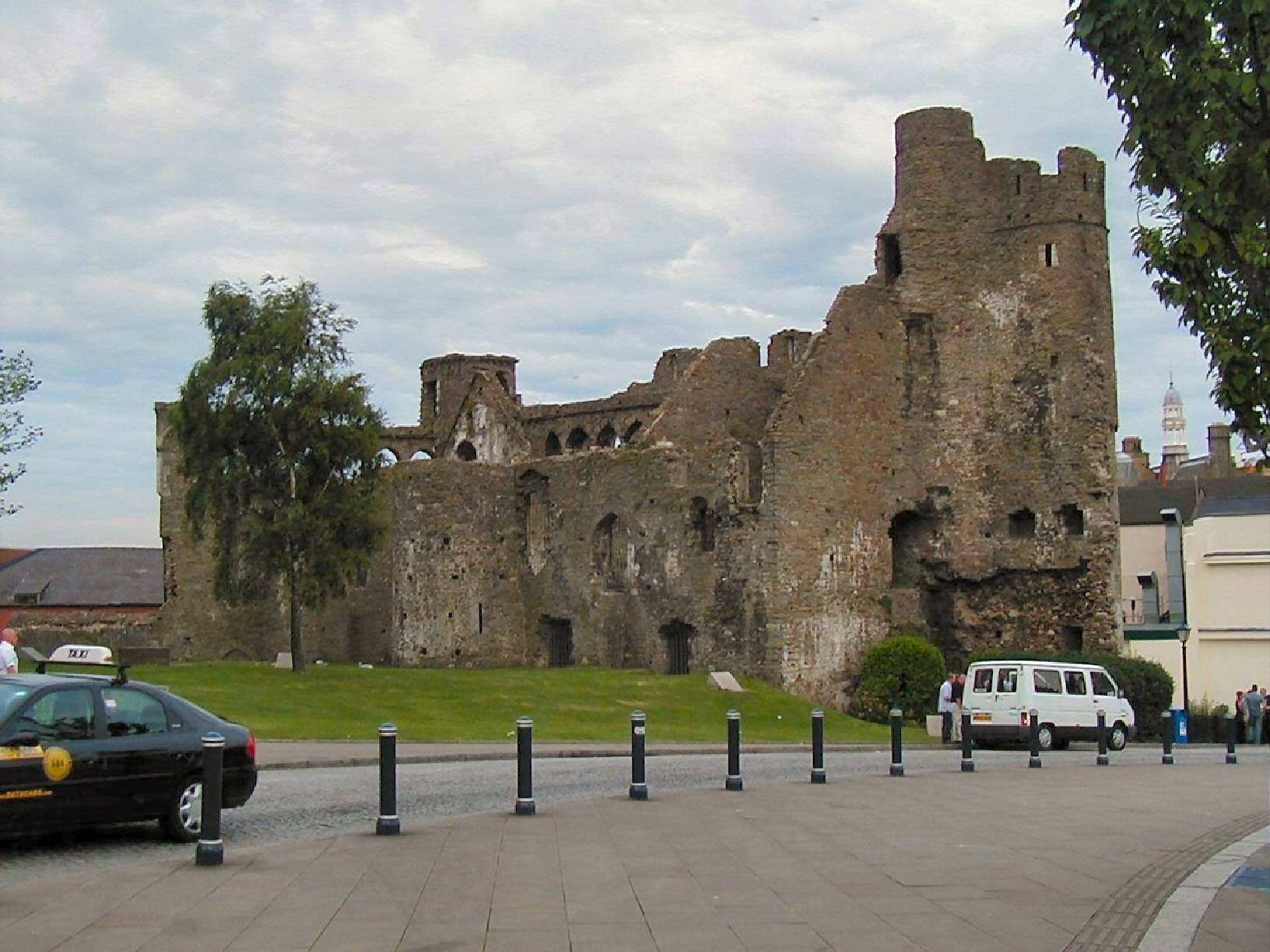 The remaining ruins of Swansea Castle seen from across Castle Street.